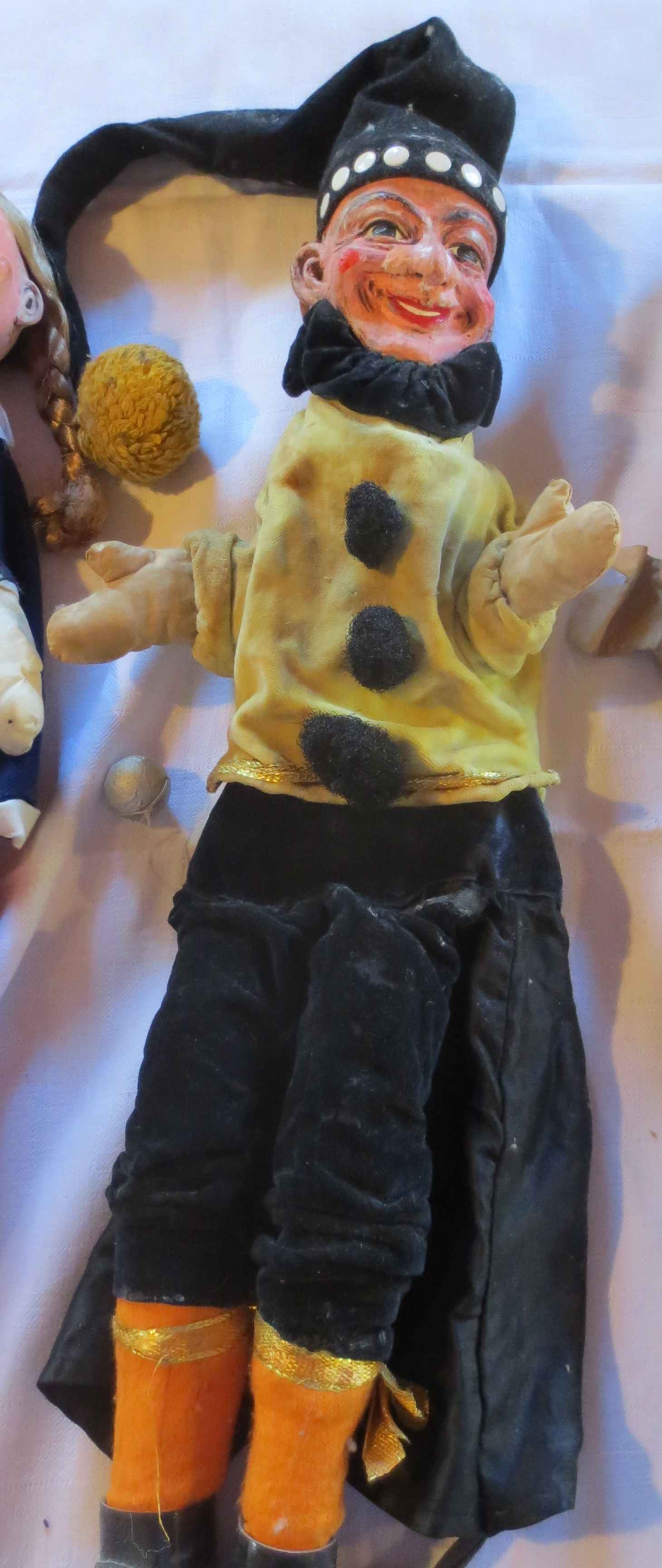 Kasperle